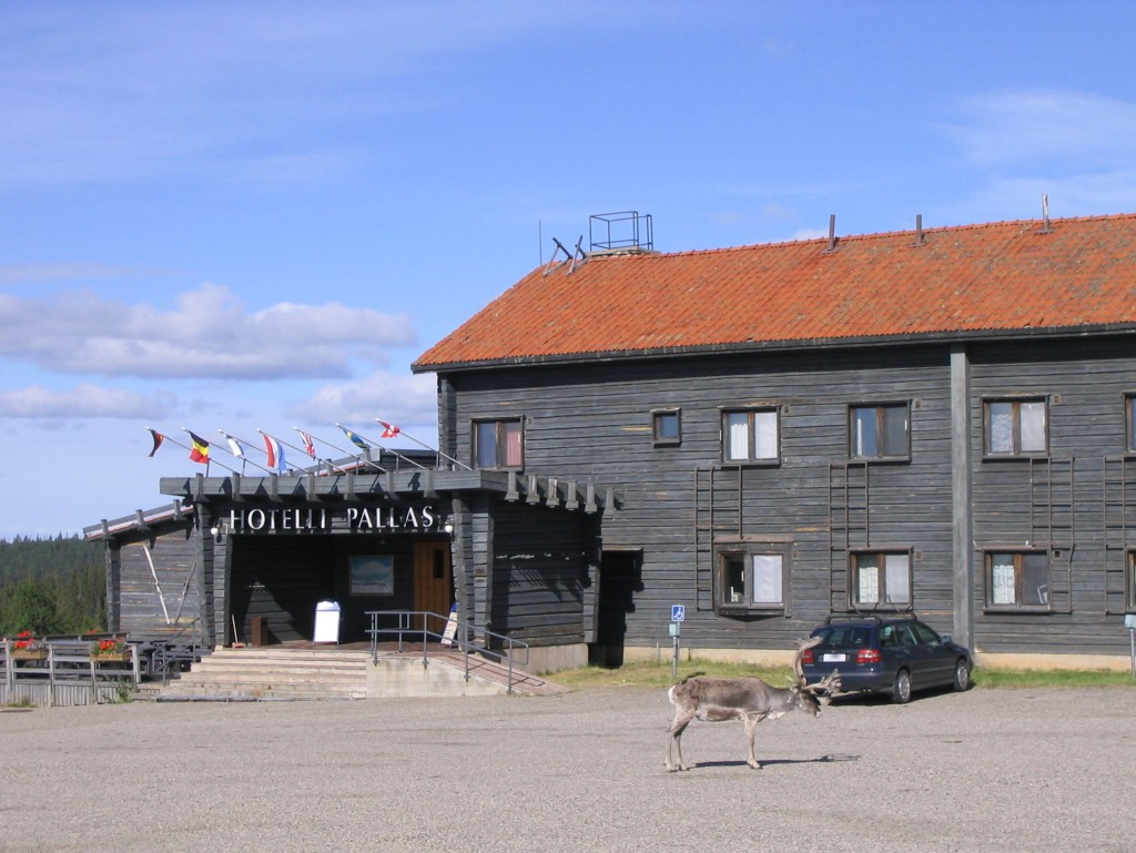 Hotel Pallas in Finland